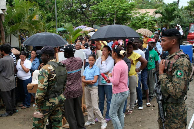 Dominicans and Haitians lined up in the rain to see medical providers from the U.S. Army Reserve in Jaibon, Dominican Republic. The 228th Combat Support Hospital, San Antonio provided medical and dental services as part of Beyond the Horizons. Army Photo by Maj. Wendy Rodgers